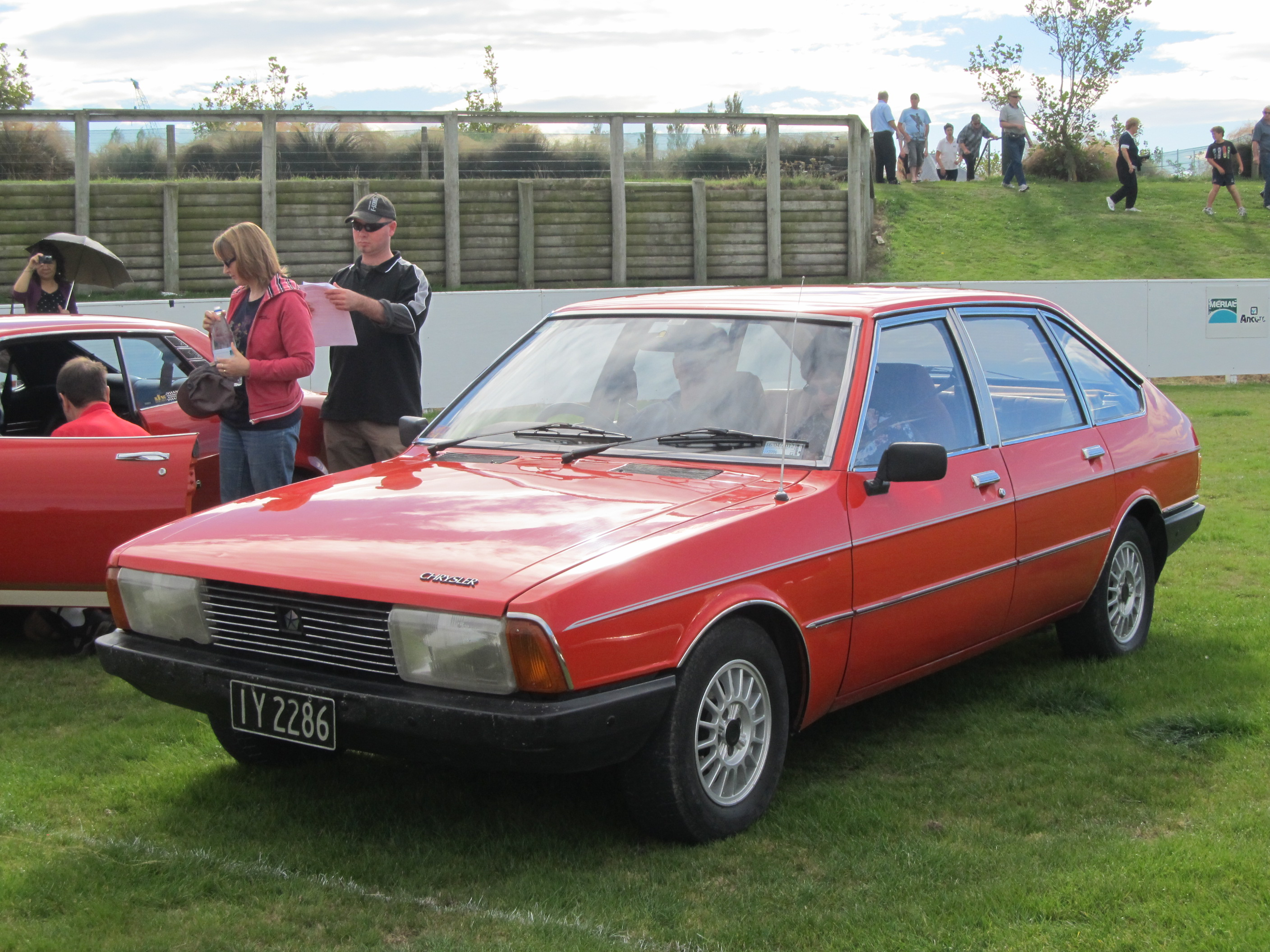 IY2286 I was onto it before he'd even stopped the car! I saw this coming into the arena and nearly wet myself, and promptly rushed over to get a photo. I chatted to the owner - an older man with a Canadian (?) accent - about it for about quarter of an hour, and he was quite impressed that somebody under twenty like myself knew what it was! He was also surprised that I knew what a Talbot Solara was...